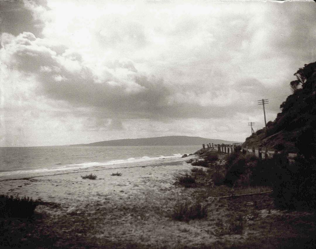 Anthony's Nose on Mornington Peninsula, near Dromana, Port Phillip Bay: 1920